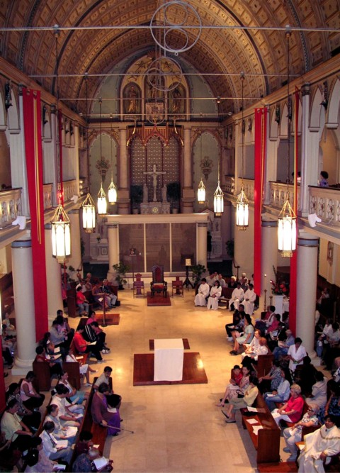 A series of photos, provided by the rectory of the Cathedral of Our Lady of Peace in Honolulu and are in the public domain.